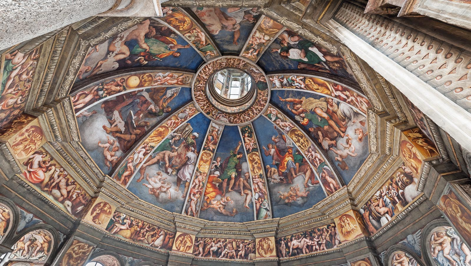 Santa Maria di Campagna - Cupola centrale sezione